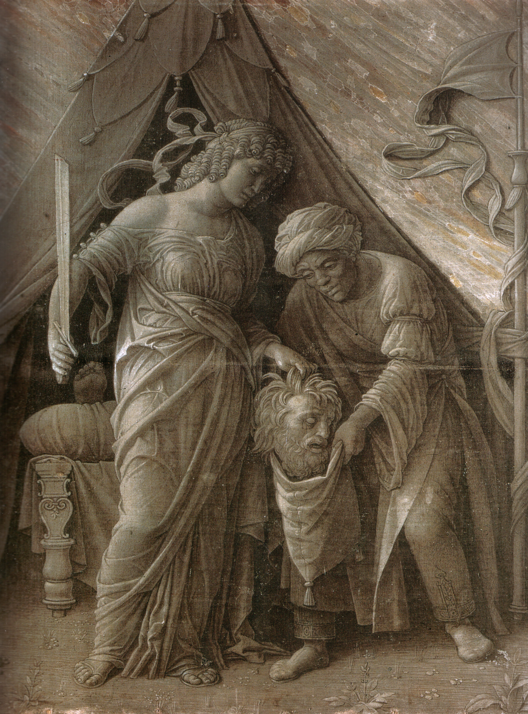 Judith